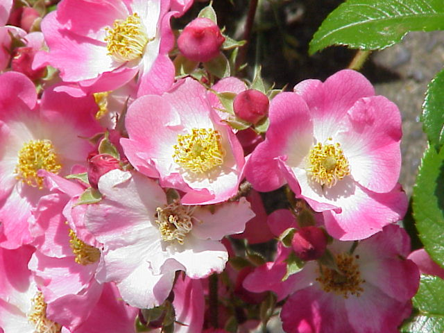 Species: Rosa sp. Family: Rosaceae Cultivar: Richard Strauß, Noack 1989 Image No. 240